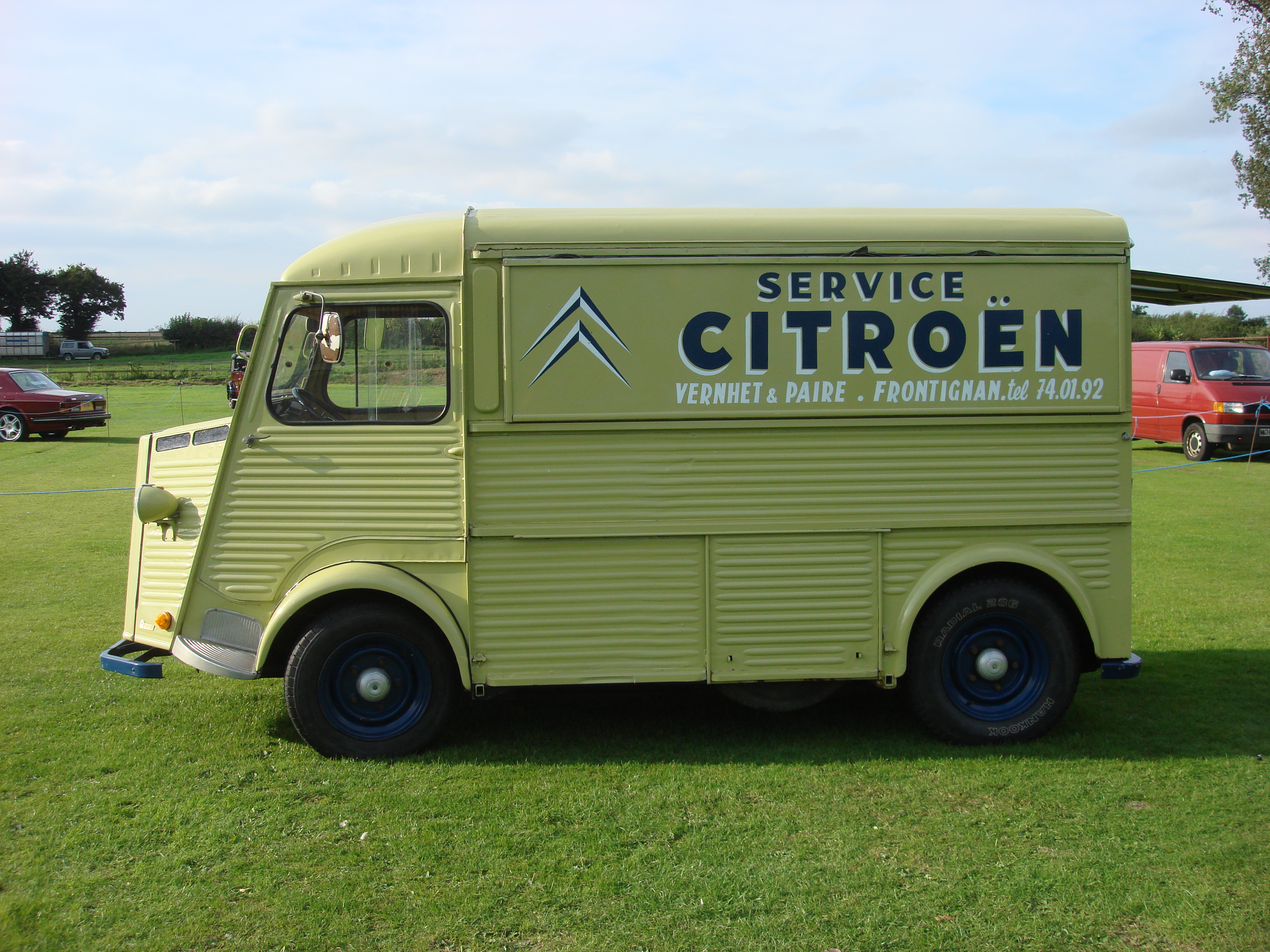 Citroën H Van